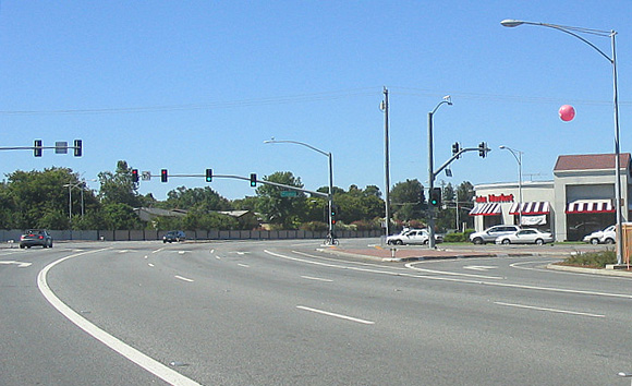 The intersection of Lawrence Expressway (Santa Clara County Route G2) with Prospect Avenue in San Jose. This photograph was taken facing northbound.